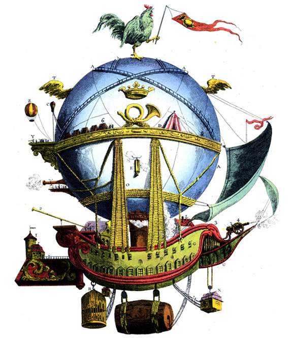 "La Minerva, an aerial vessel destined for discoveries, and proposed to all the Academies of Europe, by Robertson, physicist"[1]